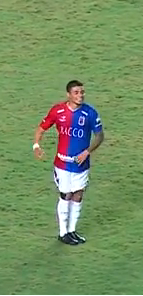 Renato Vieira Rodrigues (Renatinho) of Paraná Clube during a match against Flamengo